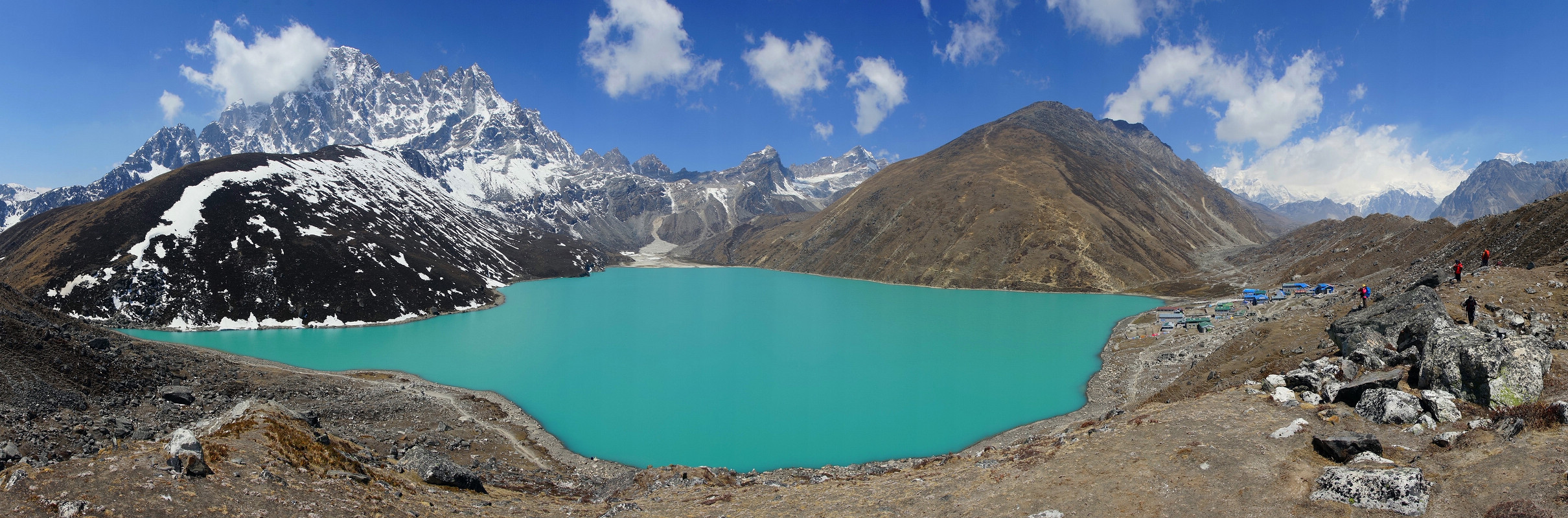 Gokyo, Nepal